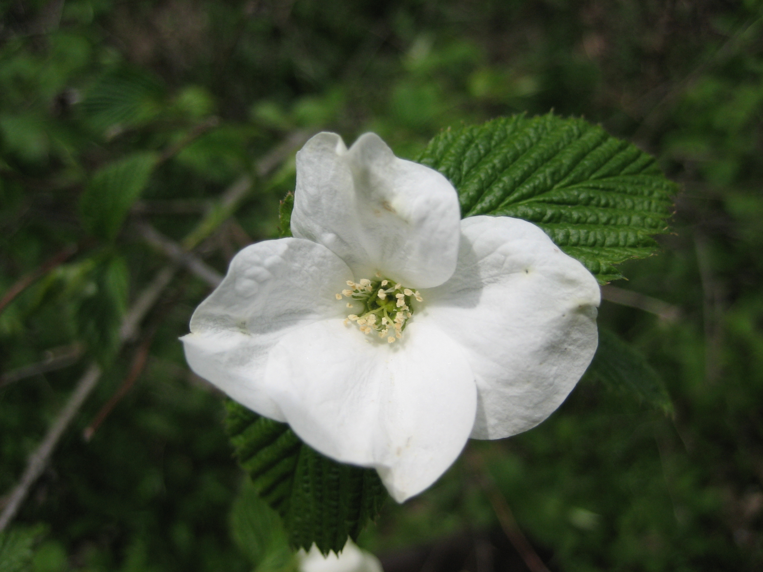 Japanese White Rose of leaflet in Kobe Municipal Arboretum